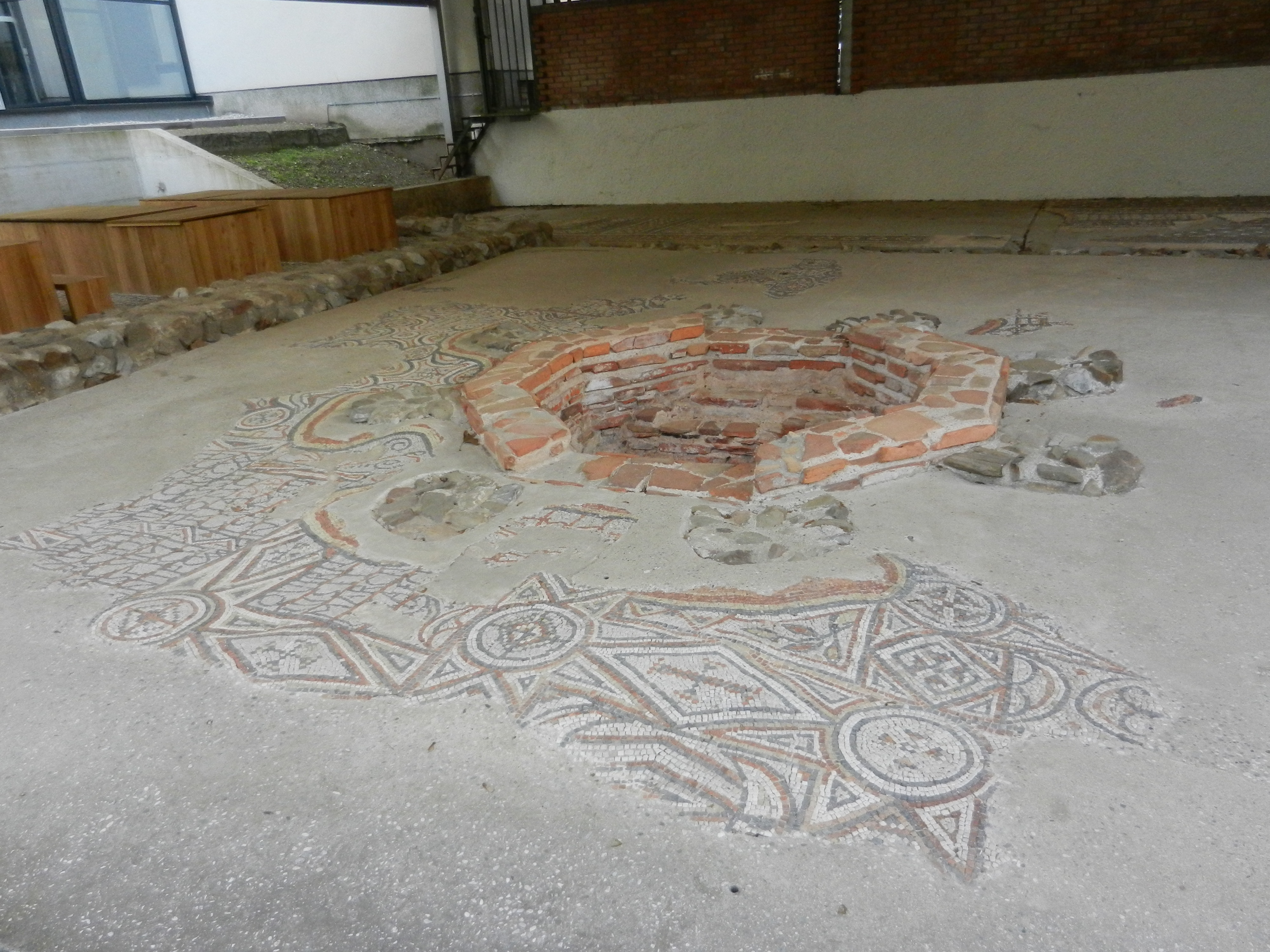 Emona: Baptistery and mosaics in the Early Christian center